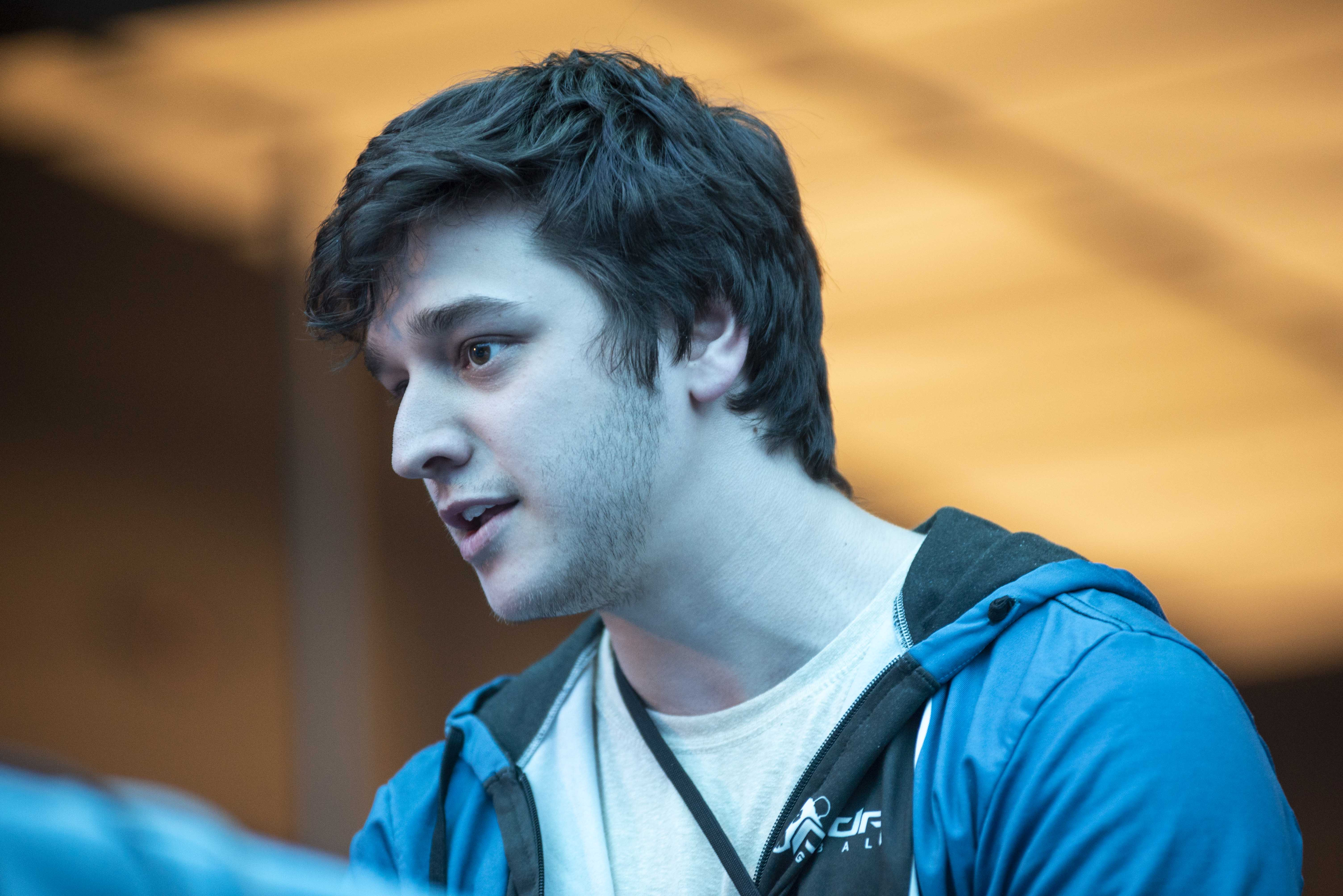 Smash Ultimate player Marss at Frostbite 2020